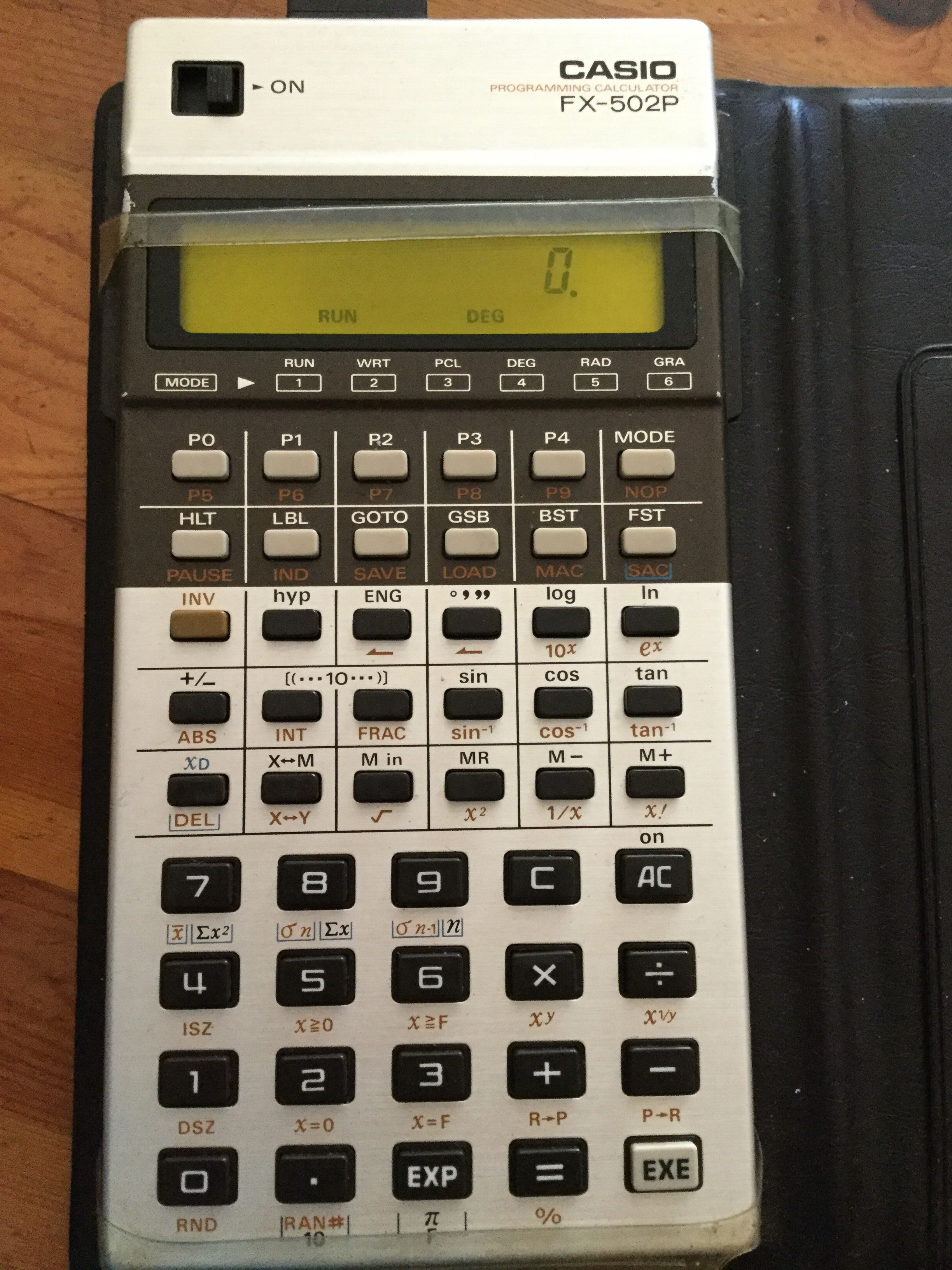 41-year-old Casio FX-502P is still working. Just took the picture on July 13, 2019 at home in Taiwan.